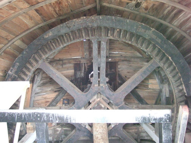 Brake Wheel in Horsey Windmill, Norfolk